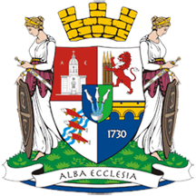 Greater coat of arms of Smederevska Palanka